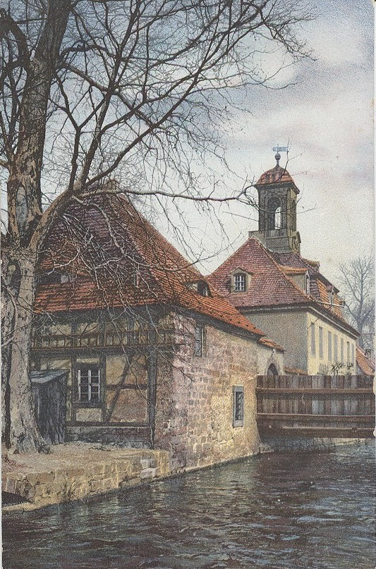 picture postcard from 1910